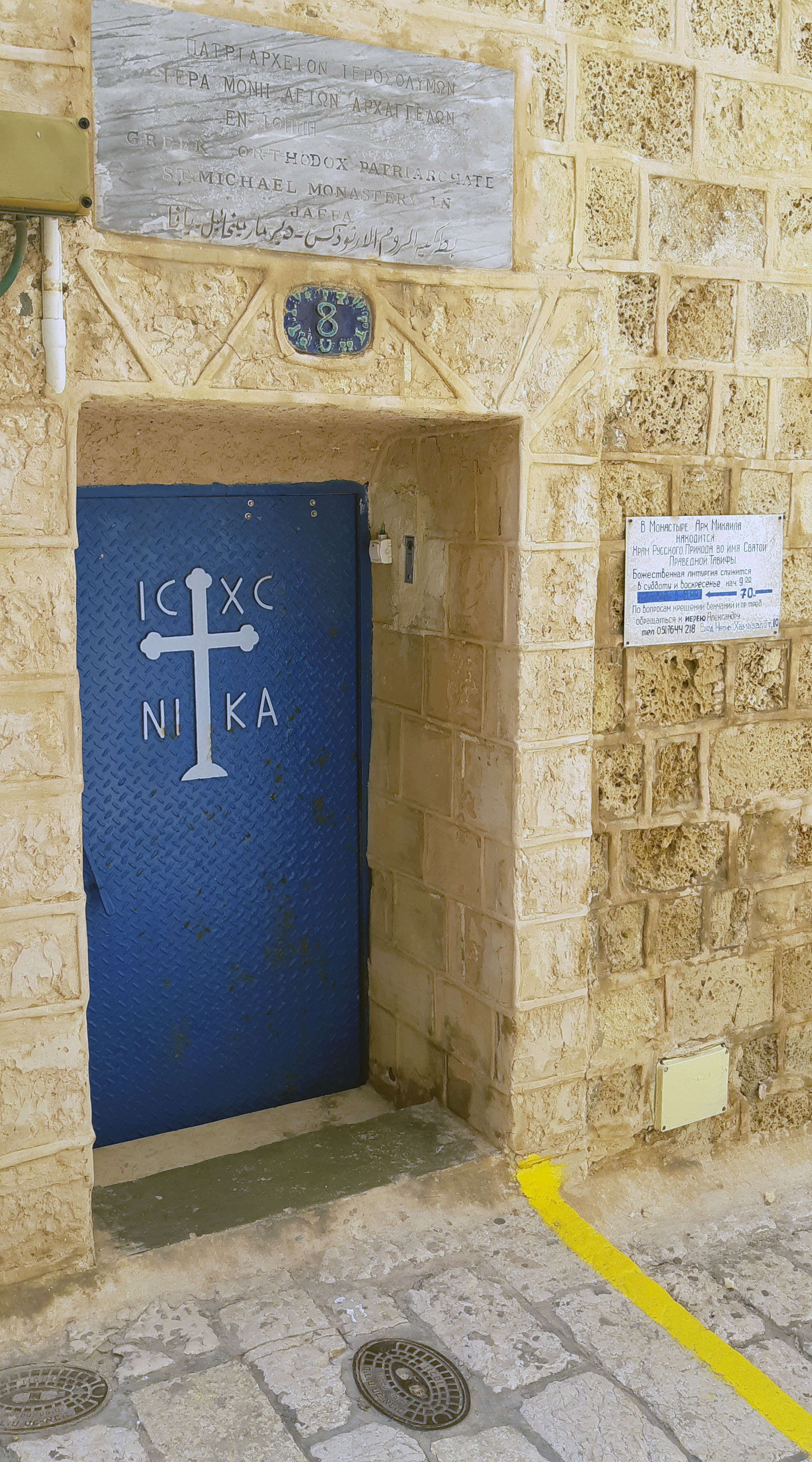 Greek Orthodox Patriarchate St. Michael monastery, Jaffa